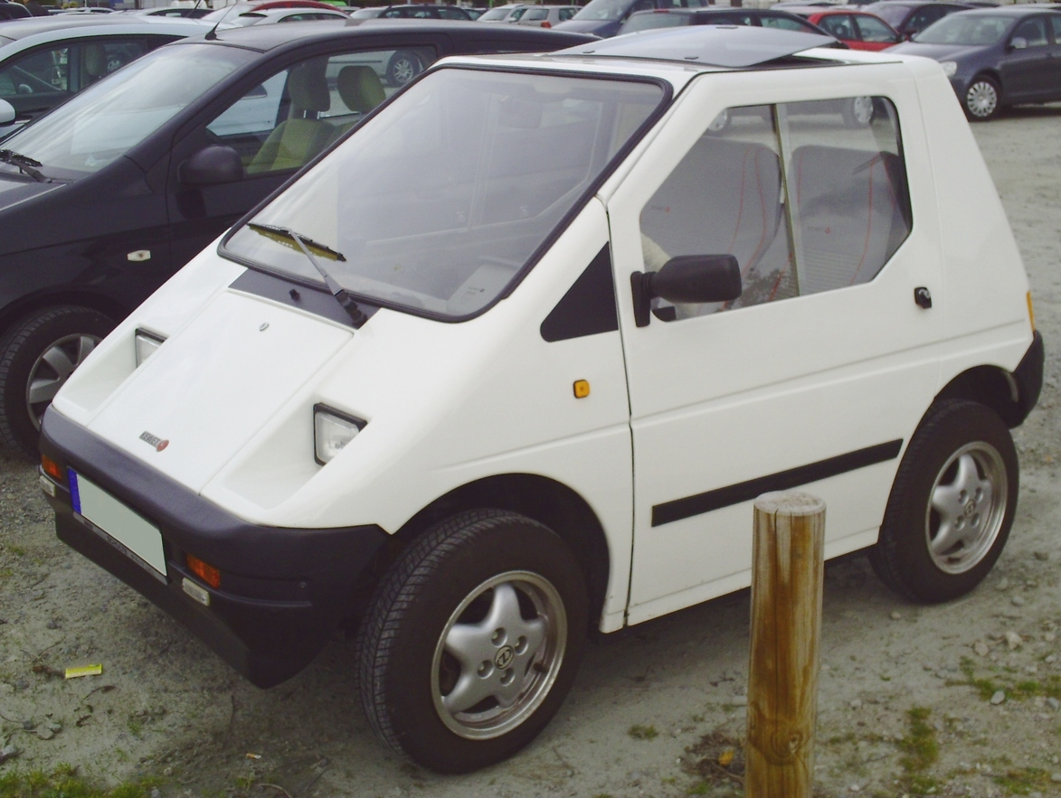 A Kewet electric microcar